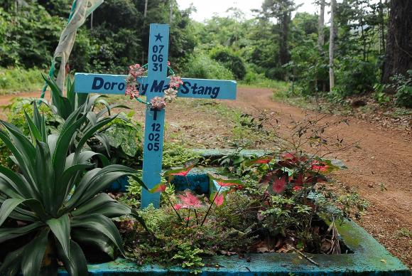 Tomb of Dorothy Sang, Pará, Brazil.